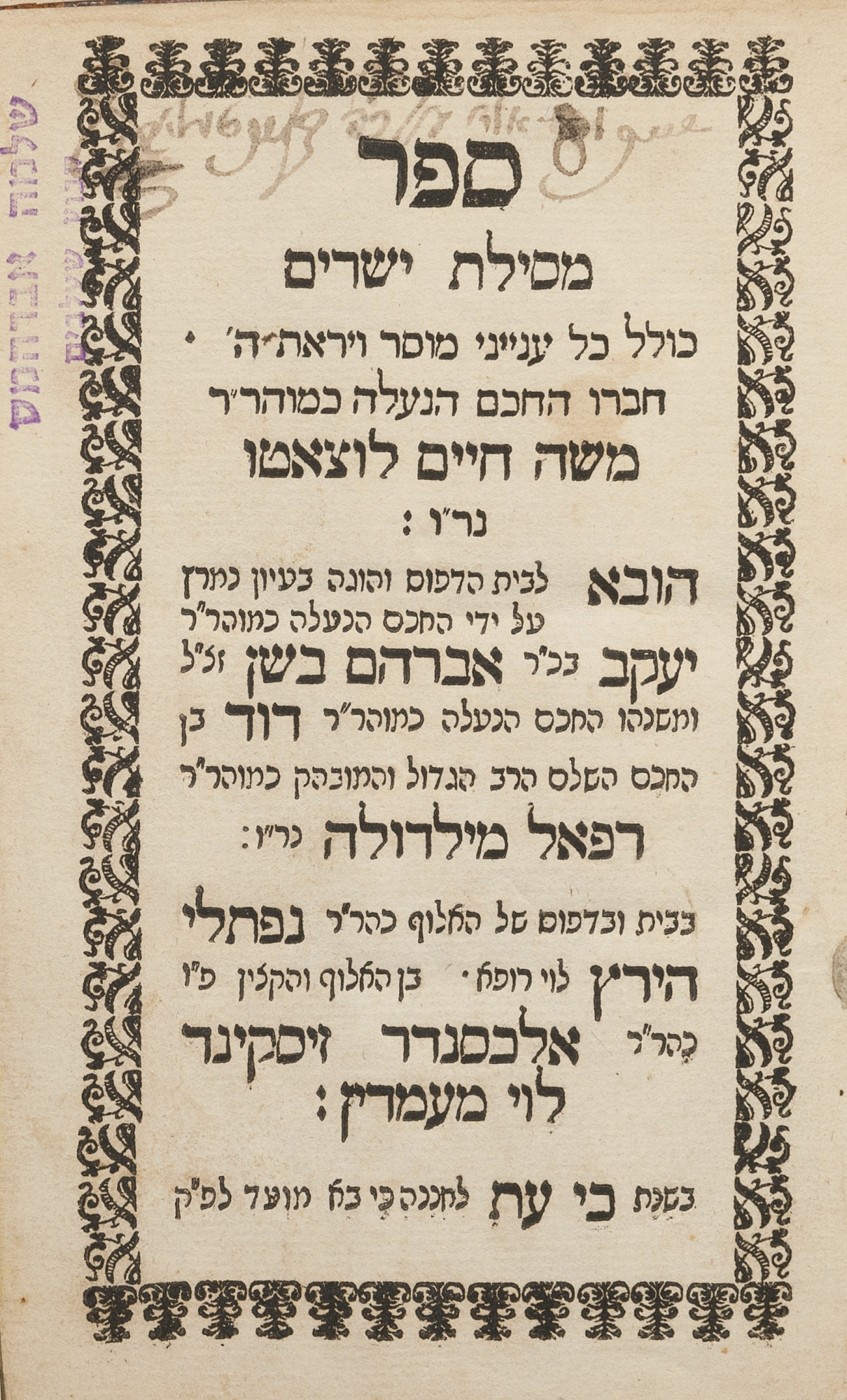 Mesilat Yesharim (Path of the Just), by Moses Haim Luzzatto, Amsterdam, Naftali Hertz Rofe: 1740. Mesilat Yesharim (Path of the Just) is an ethical text composed by the influential Moses Haim Luzzatto (1707-1746), often referred to by his acronym Ramhal. Standing in marked contrast to the rest of Luzzatto's writings which ranged from kabbalistic to philosophical, this ethical treatise is Luzzato's most influential work. It is considered by many to be the most important Jewish ethical text since the Medieval period.